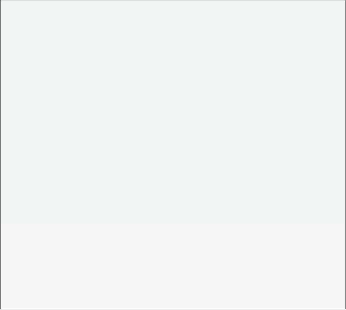 skali intensywności - prezentacja 4 (duże R)